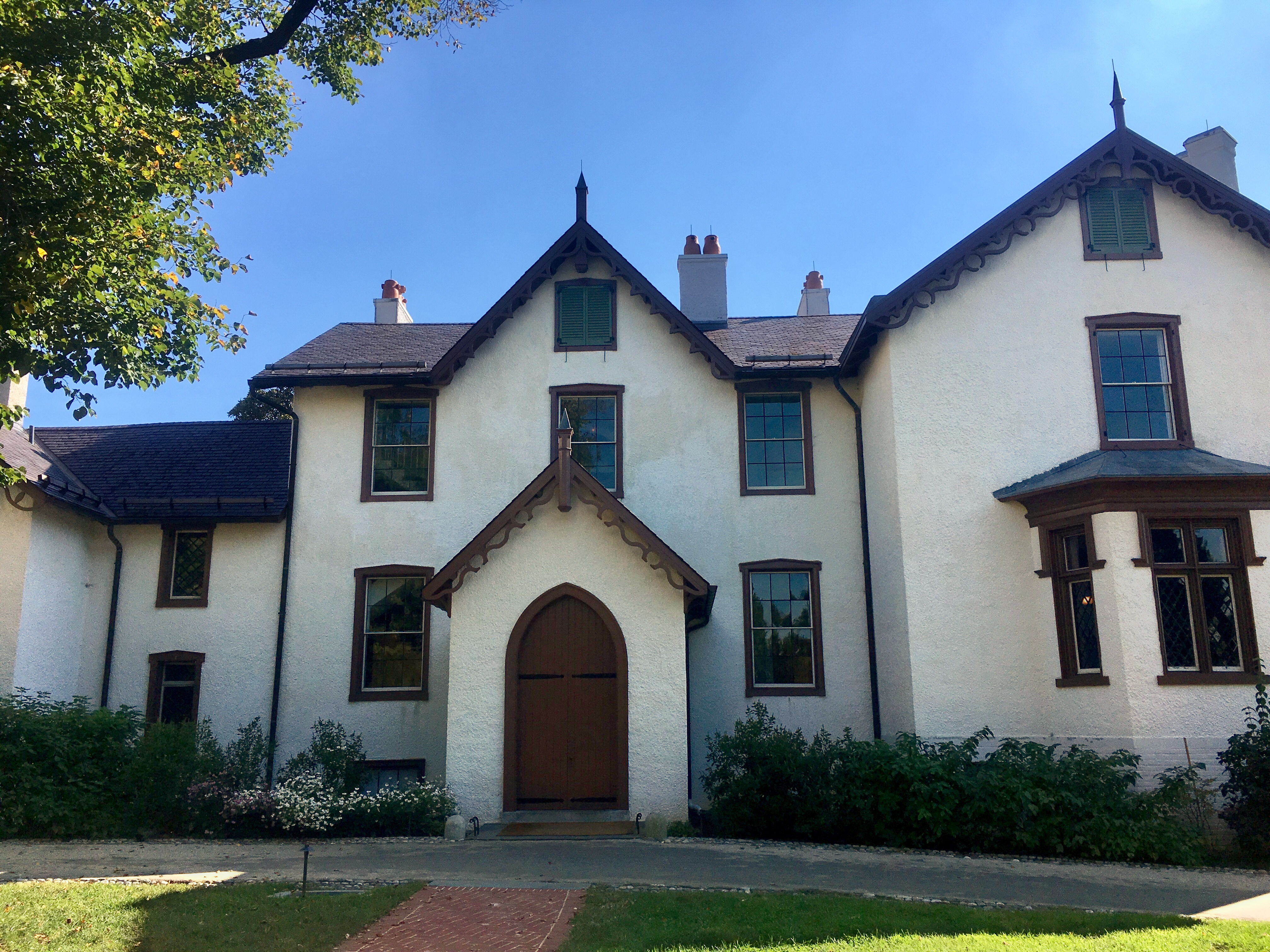 Front entrance to Lincoln's Cottage, September 2018